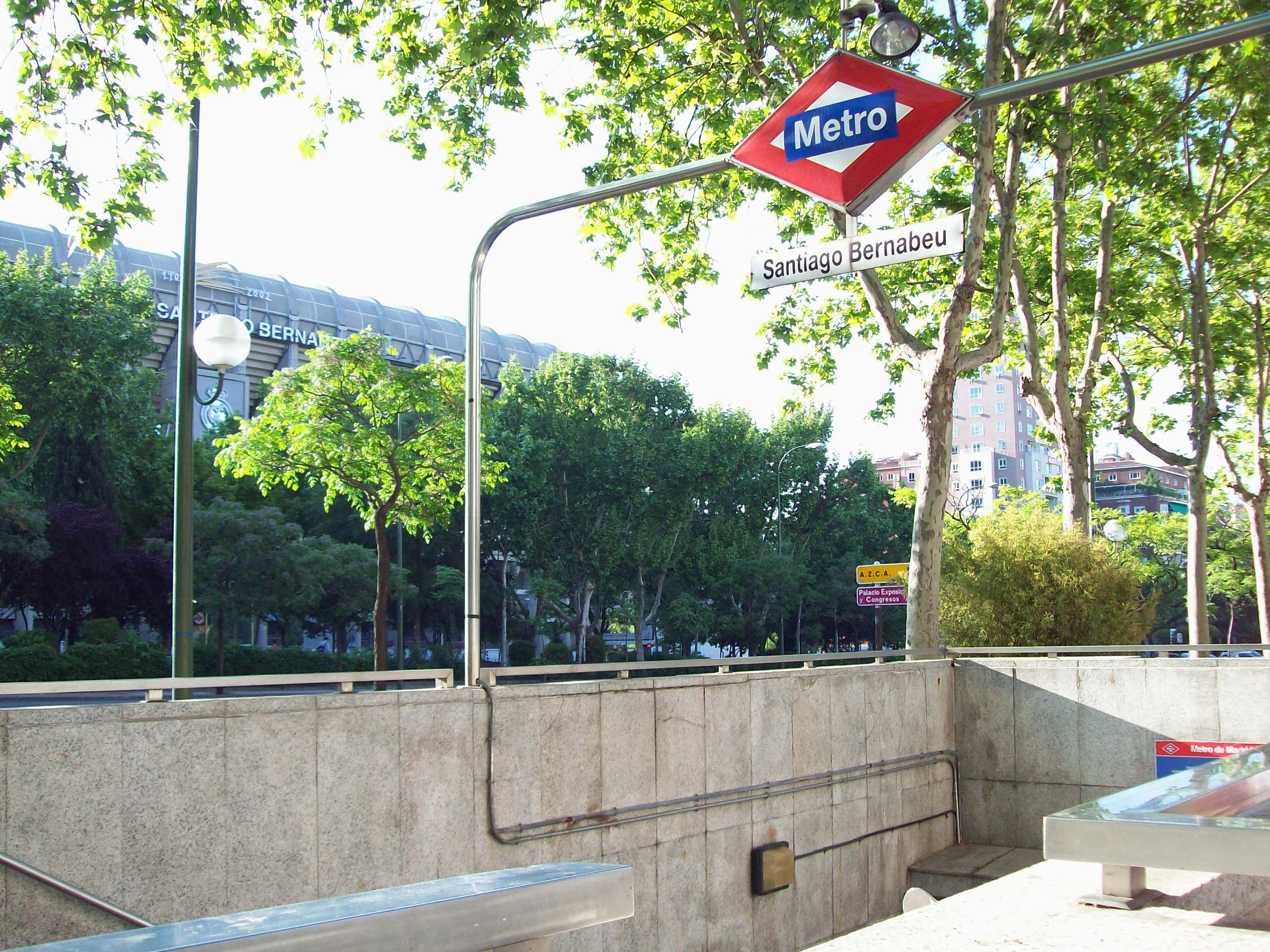 Entrance of Santiago Bernabéu metro station in Madrid (Spain), at 103 Paseo de la Castellana (avenue) in Tetuán district.